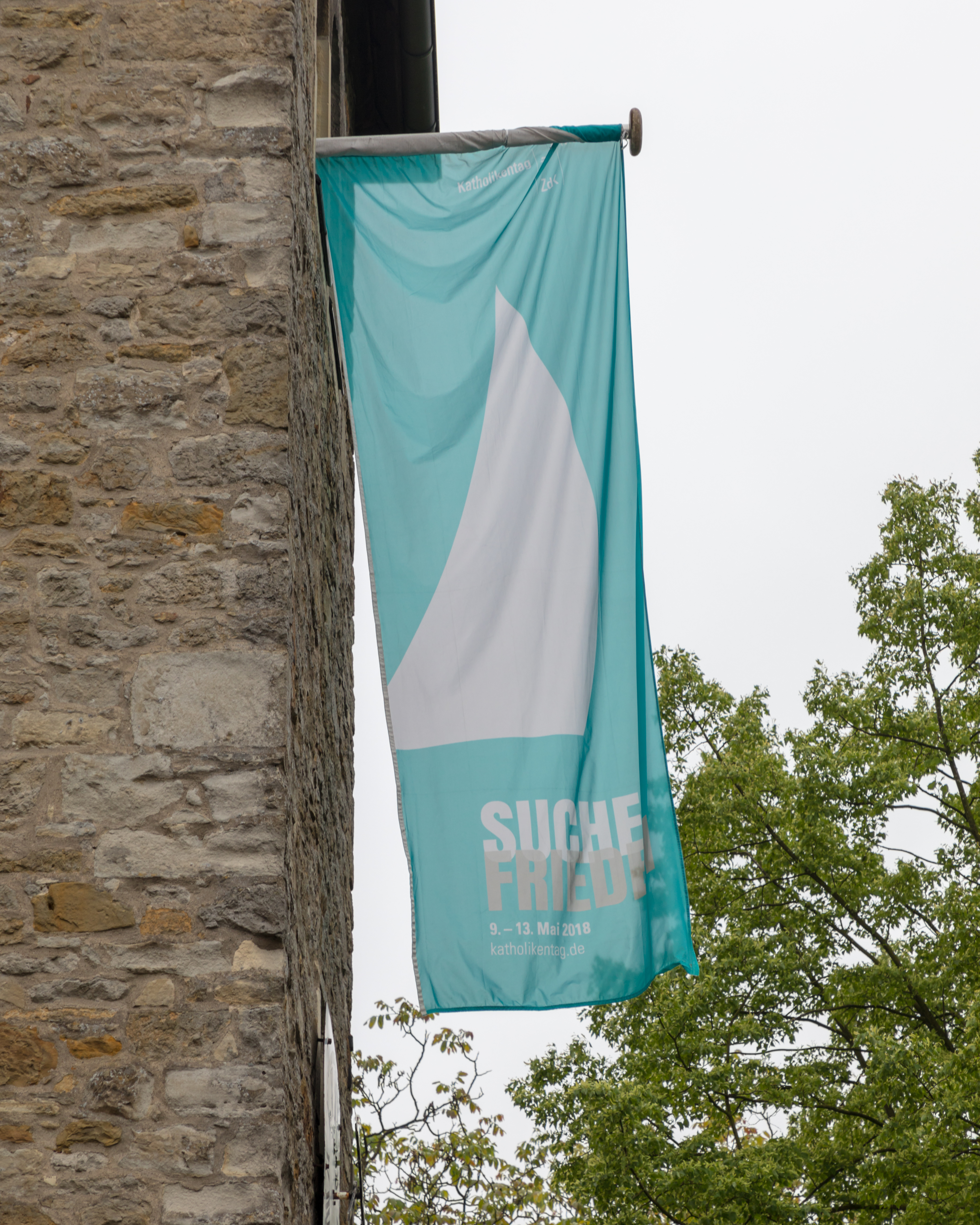 St Joseph church, Kinderhaus, Münster, North Rhine-Westphalia, Germany